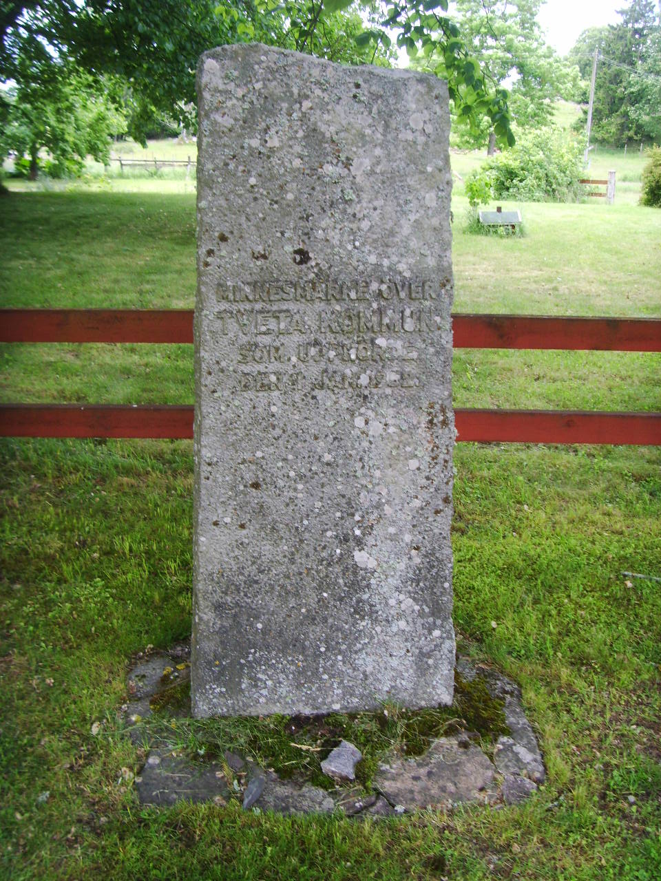 A memorial stone, beside the church in Tveta, Småland.